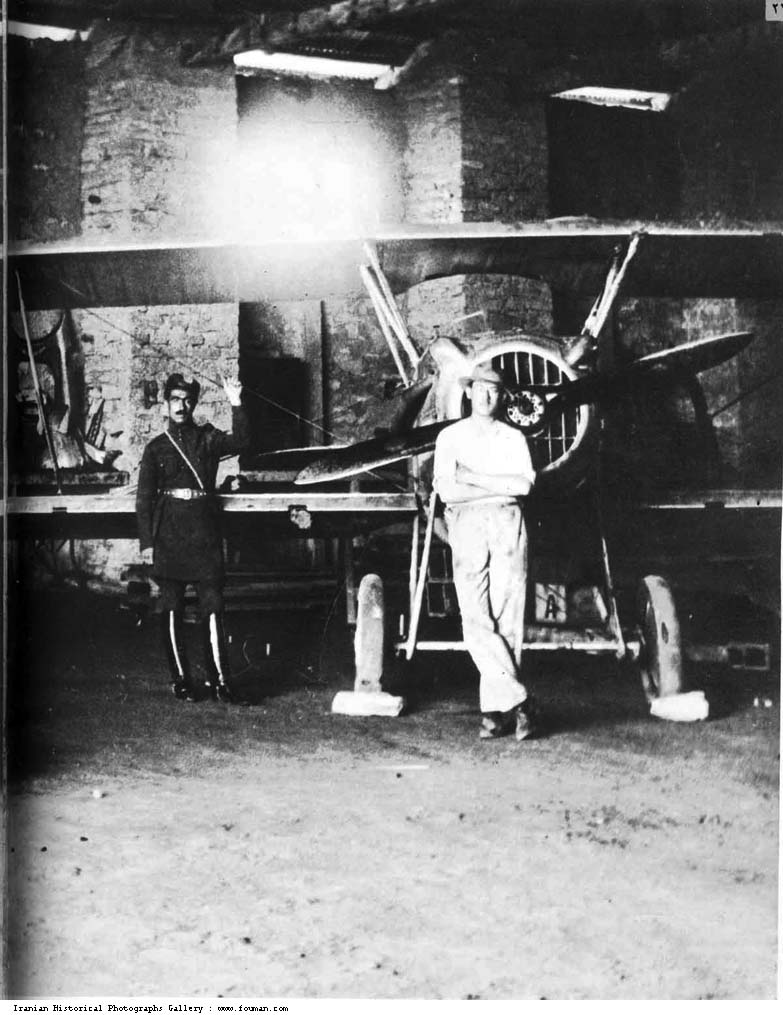 A SPAD S.42 at Doshan Tappeh airfield in Iran/Persia